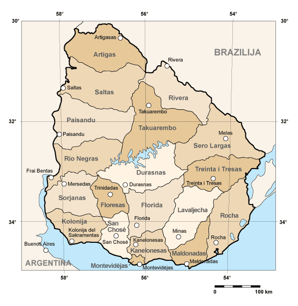 Departments of Uruguay (Lithuanian)